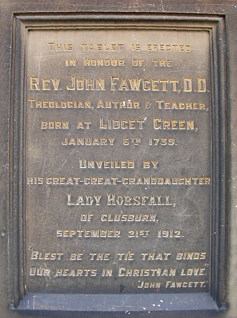 Plaque - New Testament Church of God - Necropolis Rd This plaque is situated on the wall near the front entrance to the chapel.